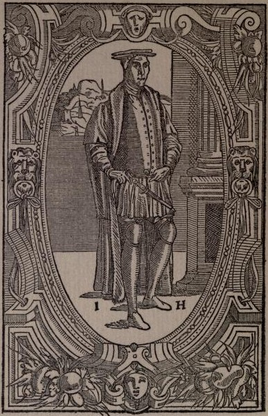 Portrait of John Heywood (frontispiece of his "Proverbs", 1556 ed.)